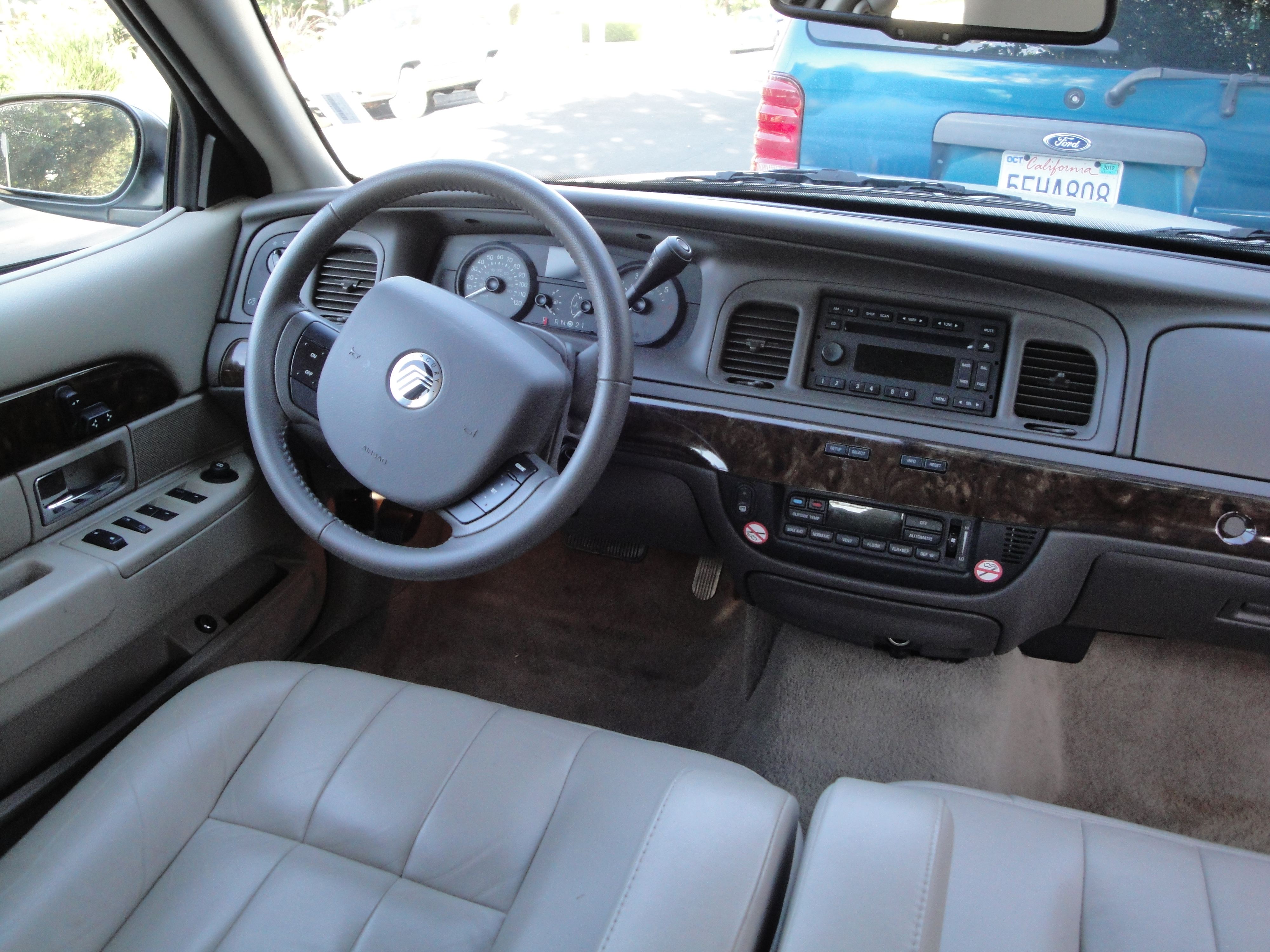 Photograph of the dashboard, door panel, and front seats of a 2011 Mercury Grand Marquis LS Ultimate Edition.